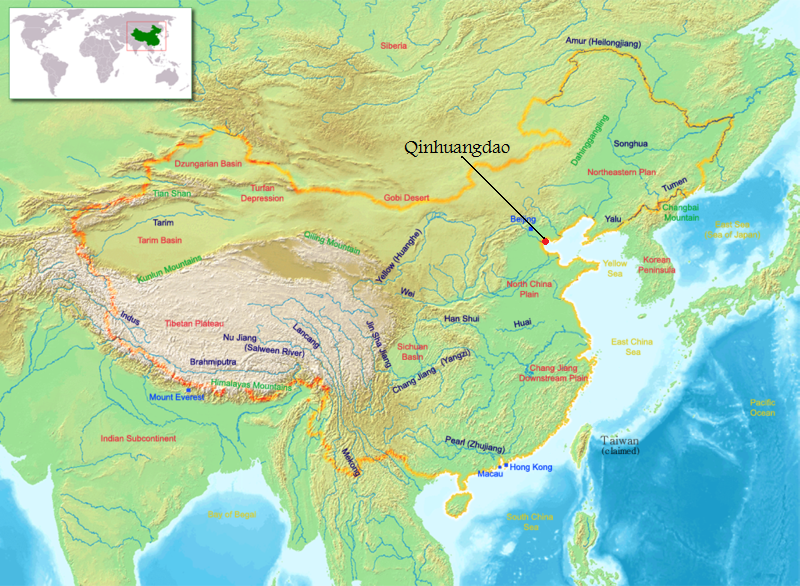 Qinhuangdao in China